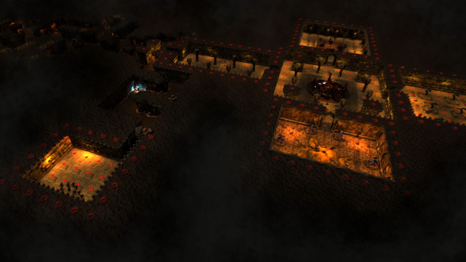 A screenshot from a pre-release version of the video game War for the Overworld